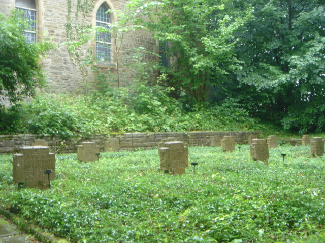 Cemetery at Husenberg, Balve